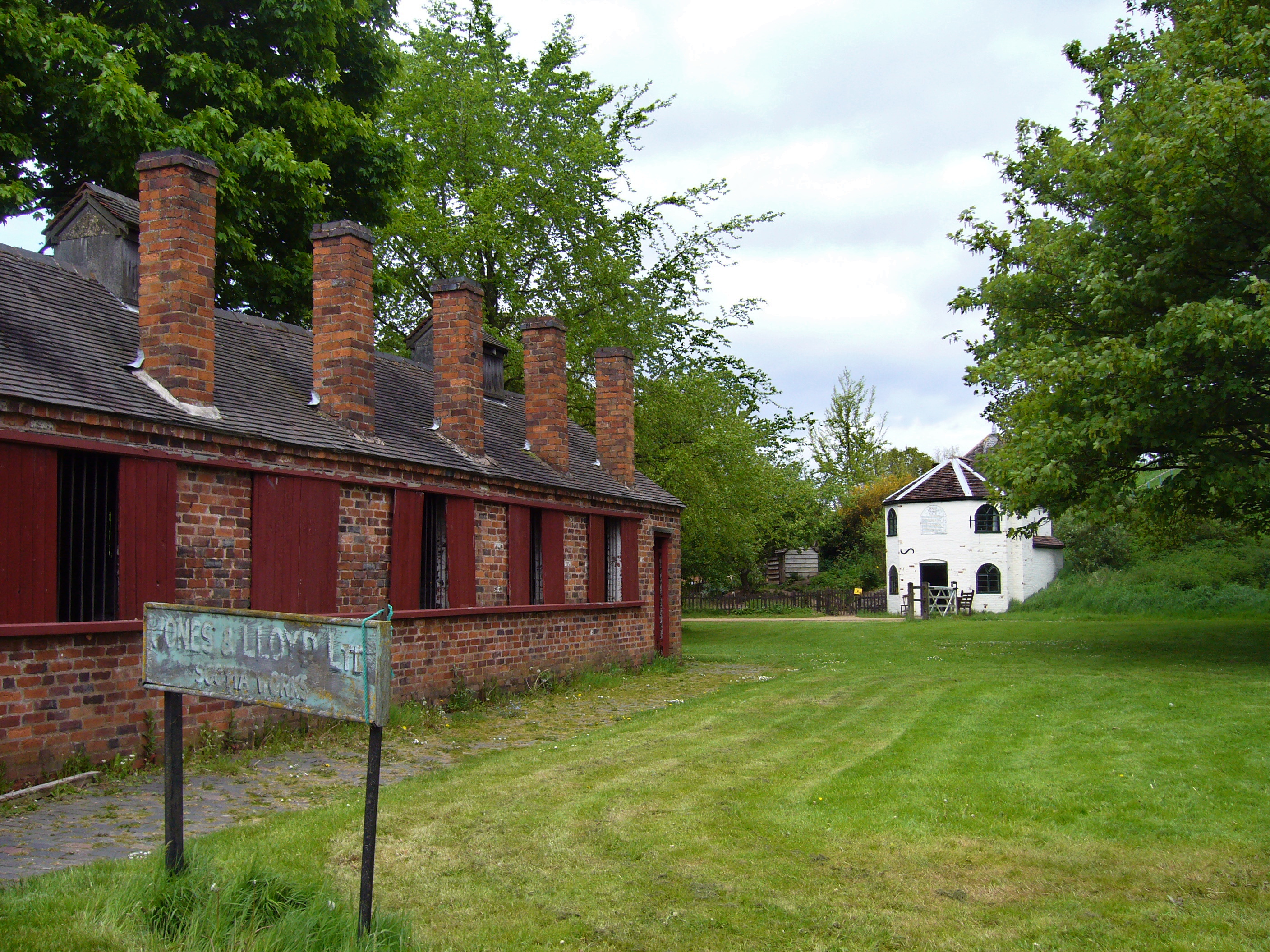 Avoncroft Museum Of Historic Buildings, Bromsgrove